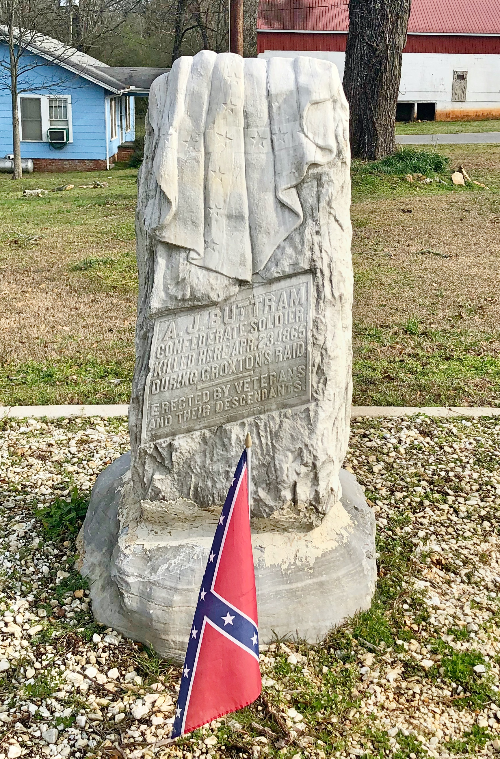 Monument to the last Confederate soldier killed east of the Mississippi.It stands at the spot where Buttram was killed, placed there by the U.D.C., on November 04, 1914.